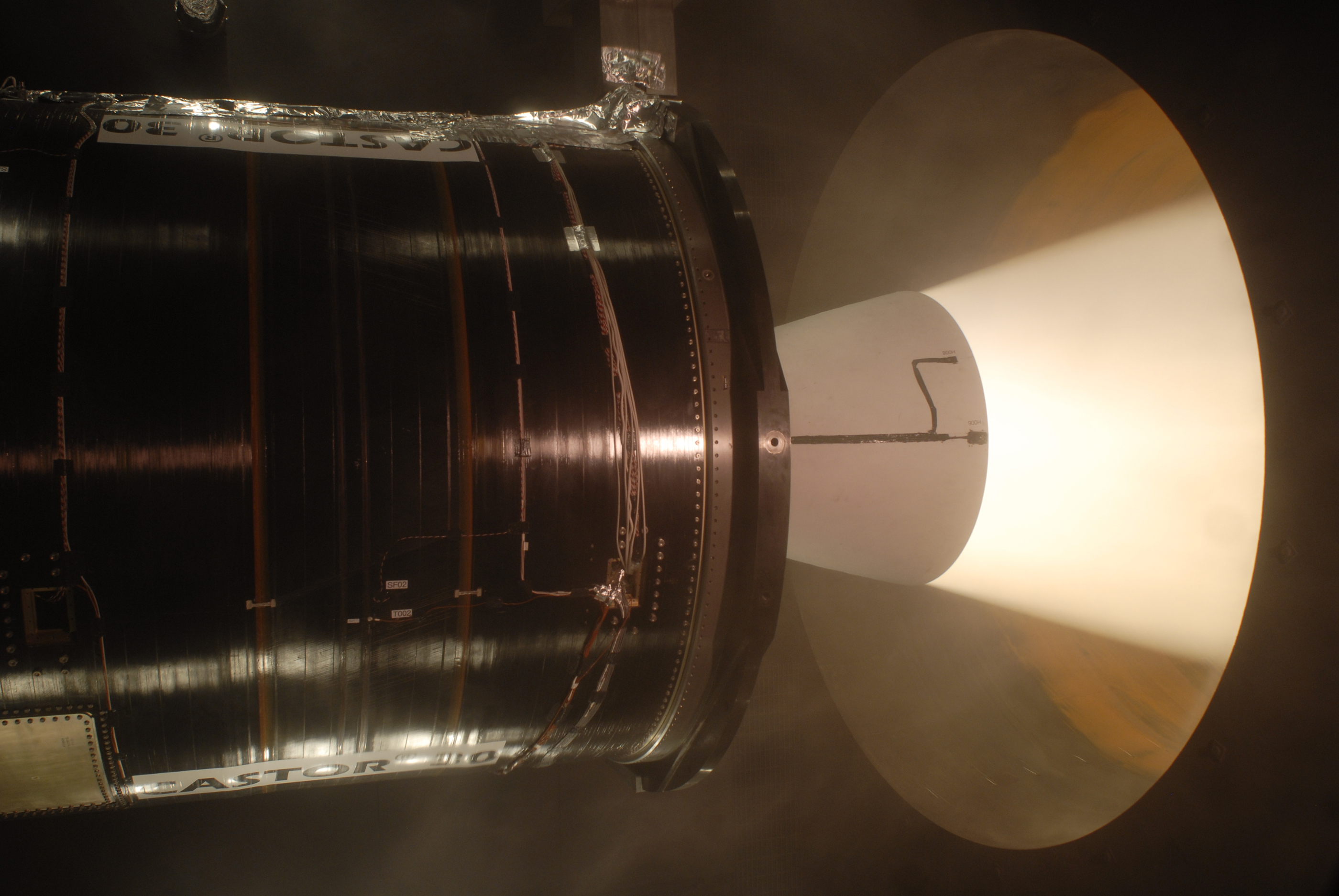 A Castor 30 rocket motor was ground-tested Dec. 9, 2009, at the Arnold Engineering Development Center at Arnold Air Force Base, Tenn., in a specialized vacuum chamber that simulates the altitude at which the upper-stage motor will operate. This was the longest rocket-motor test ever in AEDC's J-6 Large Rocket Motor Test Facility, which became operational in 1994.